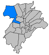 Map of Luxembourg City, Luxembourg, with the boundaries of the city's twenty-four quarters demarcated and the quarter of Rollingergrund-North Belair highlighted in blue.